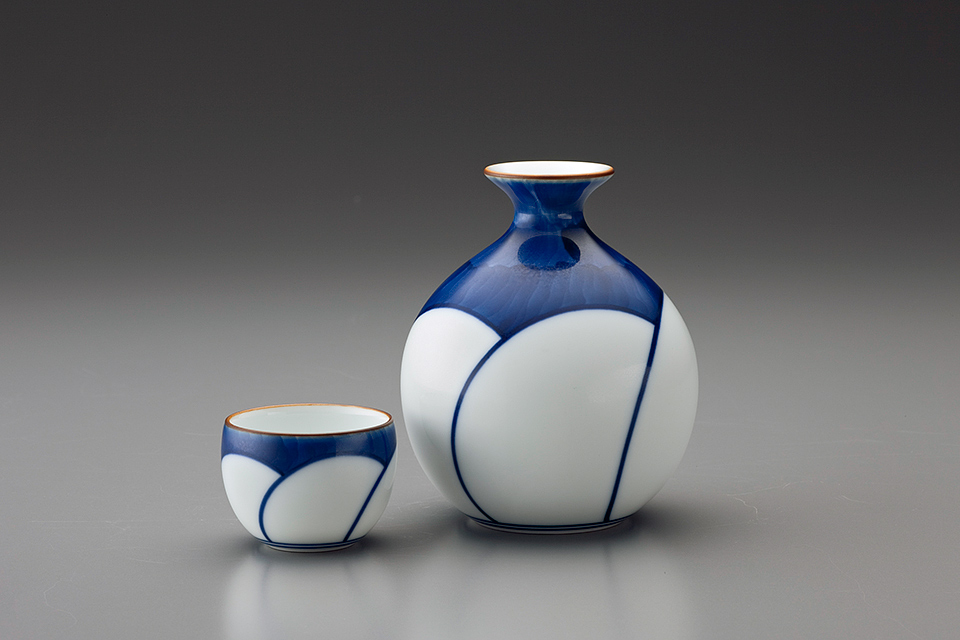 Twisted Ume Blossom series / Sake Set (1968), Masahiro Mori (ceramic designer) designed